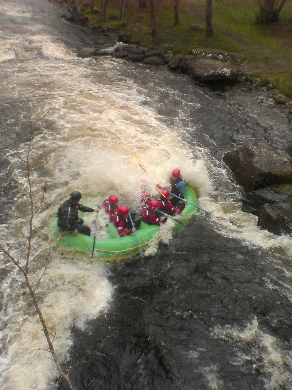 Canolfan Tryweryn - Stone Bridge aka Miss Davis, Image source: I (Jamsta) created this image. (someone: which tag should I use - cant find it in the docs?)